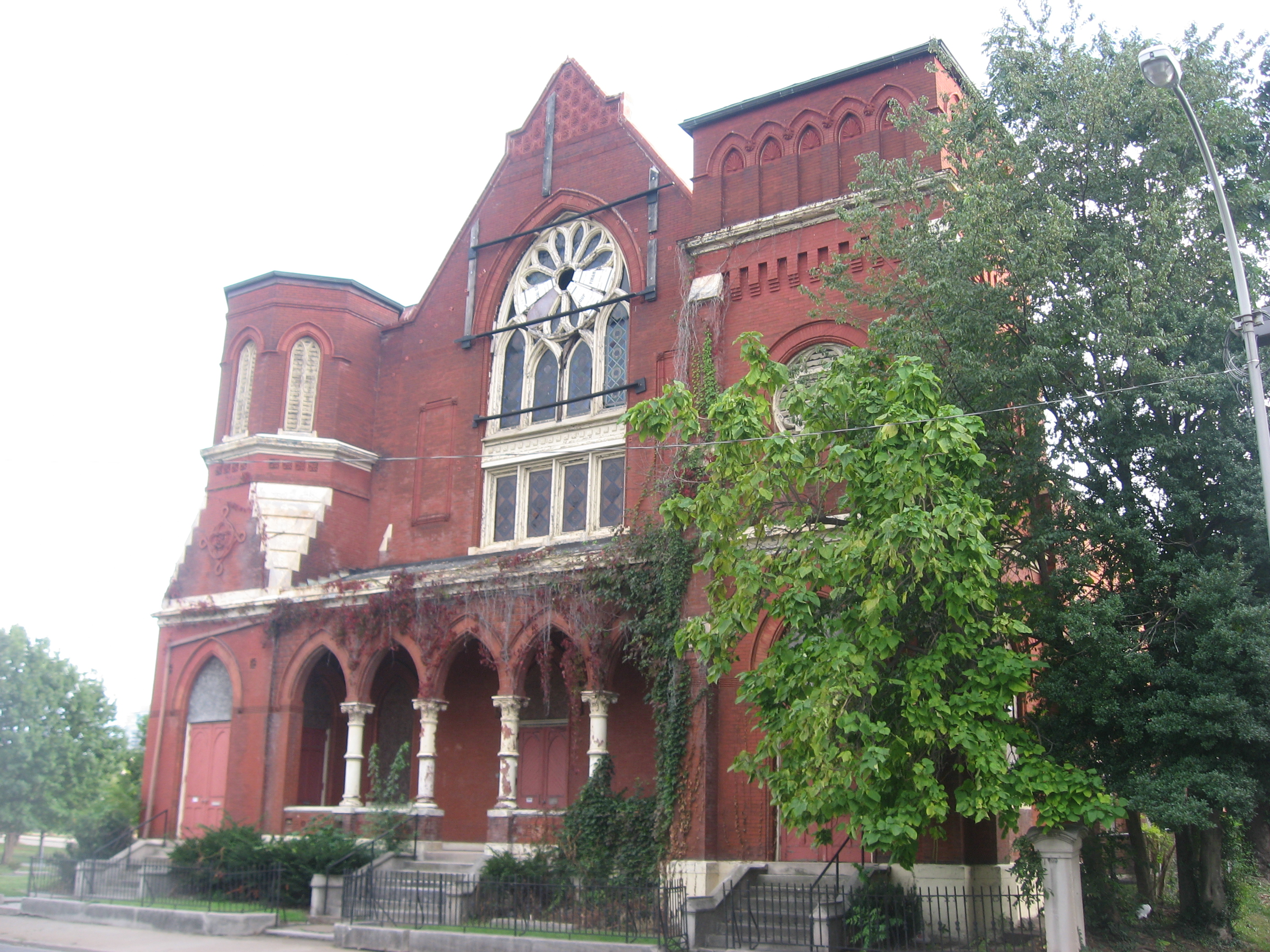 Front of the former Chestnut Street Baptist Church (also formerly Quinn Chapel African Methodist Episcopal Church), located at 912 W. Chestnut Street in the West End of Louisville, Kentucky, United States. Built in 1884, it is listed on the National Register of Historic Places.